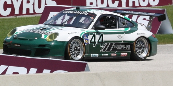 The GT sports car of John Potter and Craig Stanton racing at an event at Road America.